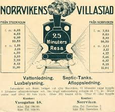 Ad for the Norrviken garden city